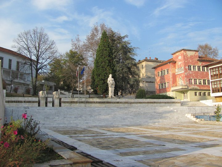 The central square of the town of Ivaylovgrad, Bulgaria